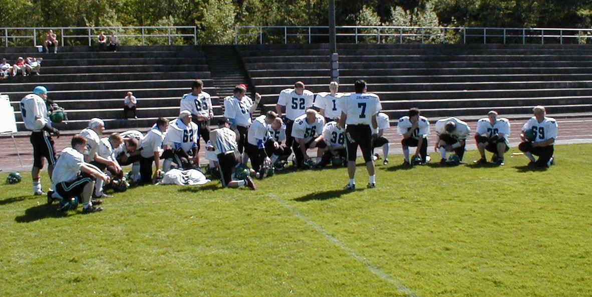 Norwegian am. football team Arendal Wildcats